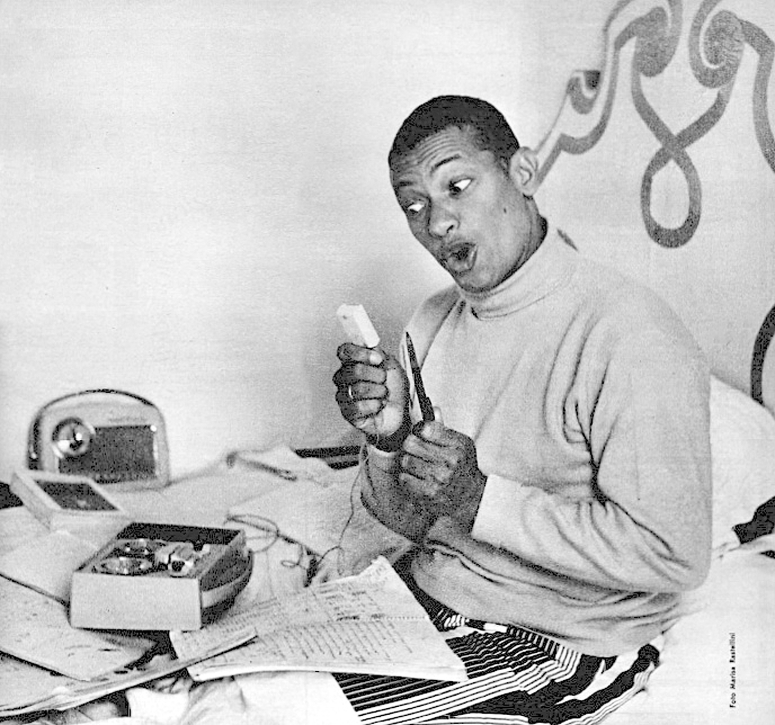 singer Henri Salvador in Rome, at the time of his participation to the Italian TV show "Giardino d'inverno"